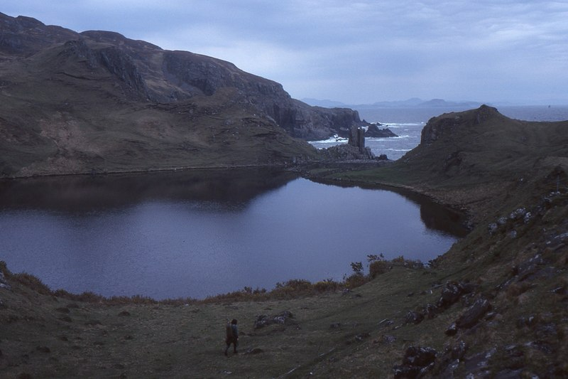 Loch Papadil. A small loch very close to the sea, with the 'Papadil Pinnacle' on the shore and beyond, the rugged coast of the southern tip of Rhum.